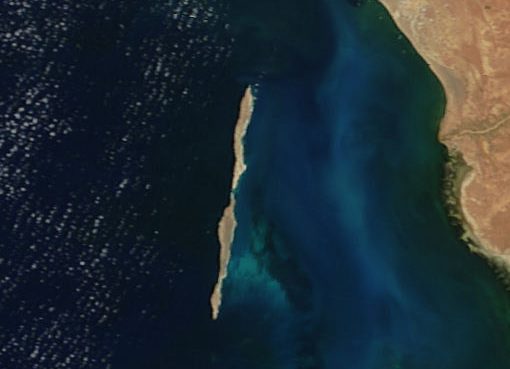 Phytoplankton in Bloom. NASA’s Terra satellite captured this image of phytoplankton in bloom in Australia’s Shark Bay on November 6, 2004.